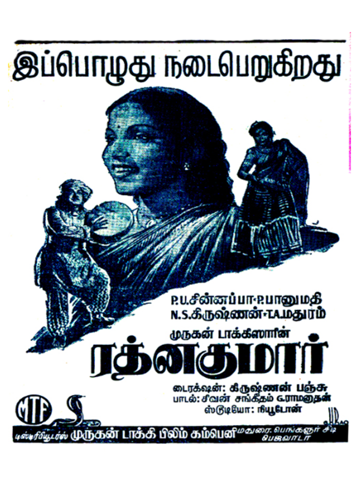 This is an advertisement that was published in the Tamil-language weekly, Kalki, dated 18 December 1949 for the Tamil-language film titled Ratnakumar released in the same year.